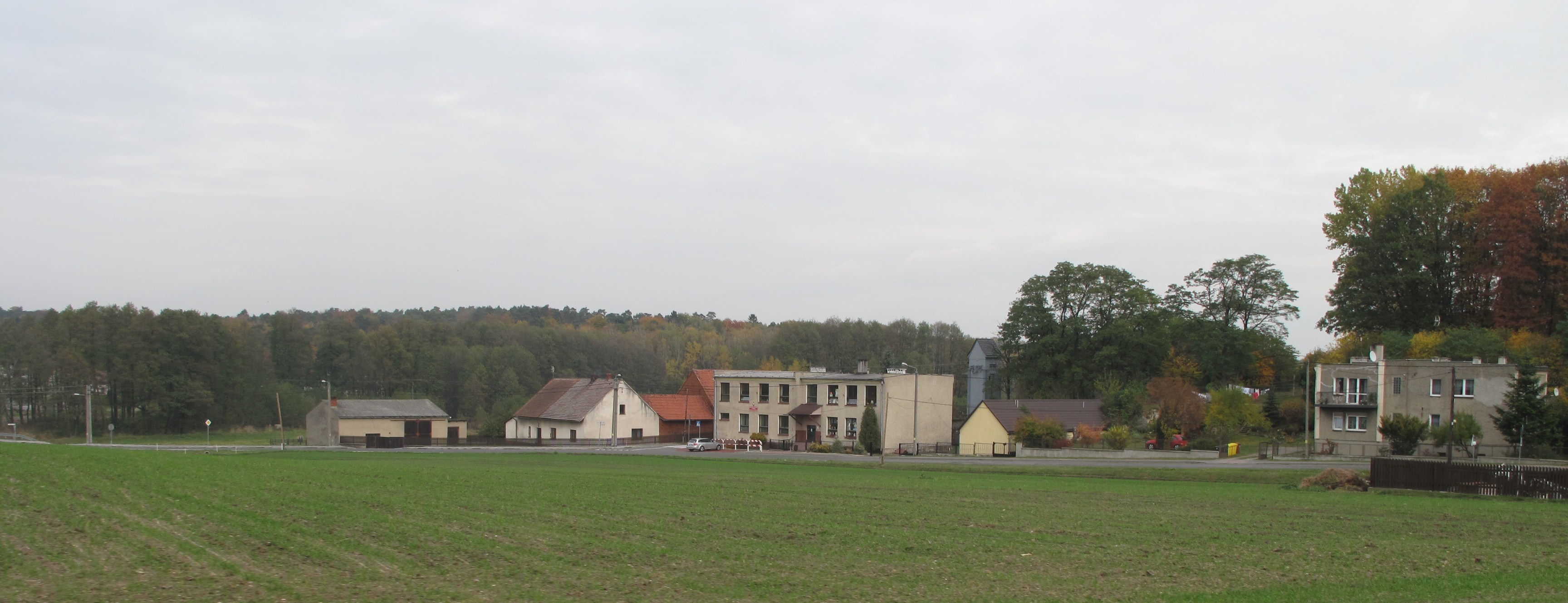 Sieroniowice. Strzelce County, Poland